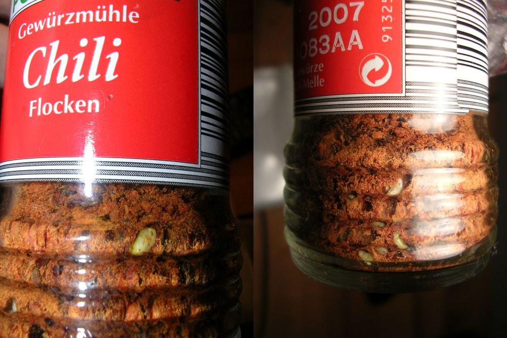 Chili powder infested with Stegobium paniceum (Bread beetle) grubs